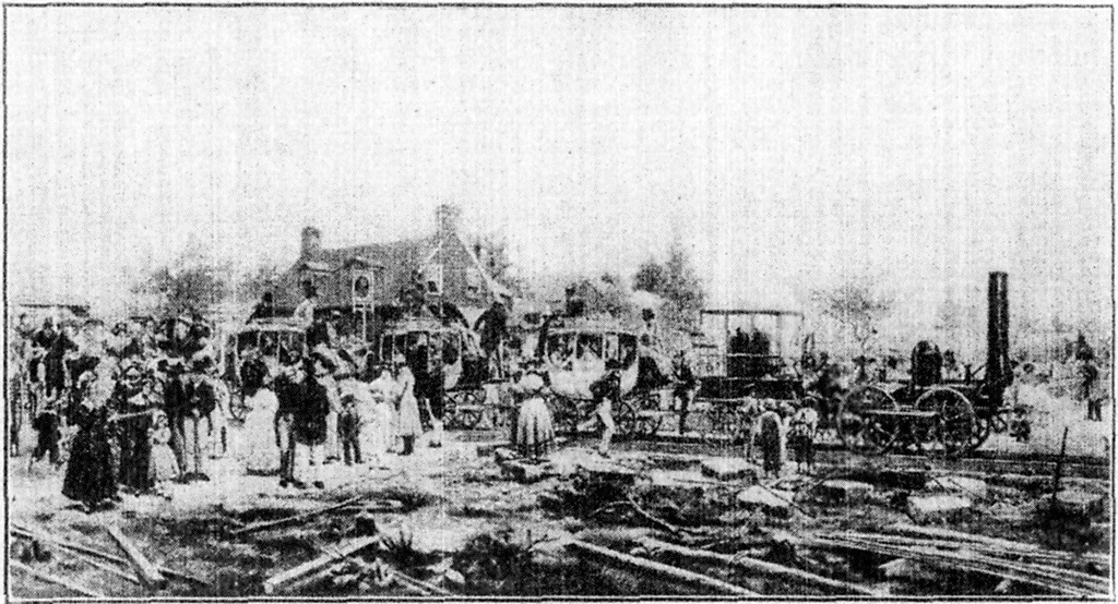 First Passenger Train in N.Y. State Leaving Schenectady for Albany, July 30, 1831.